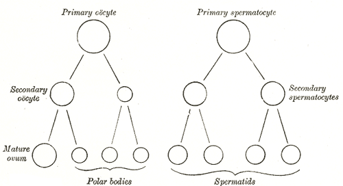 Scheme showing analogies in the process of maturation of the ovum and the development of the spermatids (young spermatozoa).